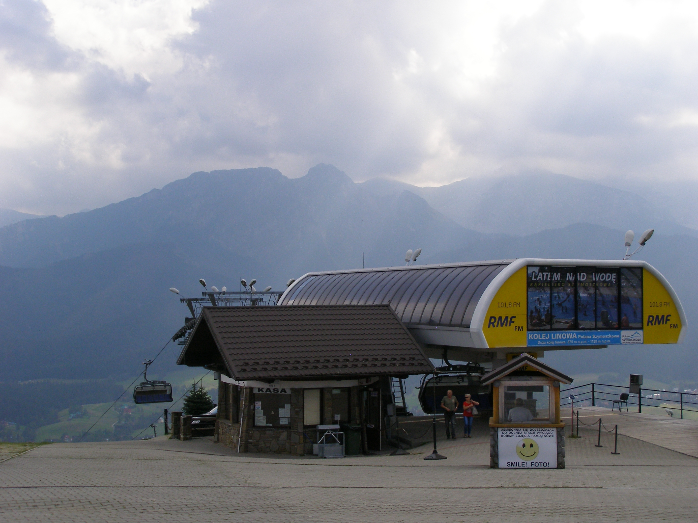 Zakopane - upper station of the Polana Szymoszkowa cableway